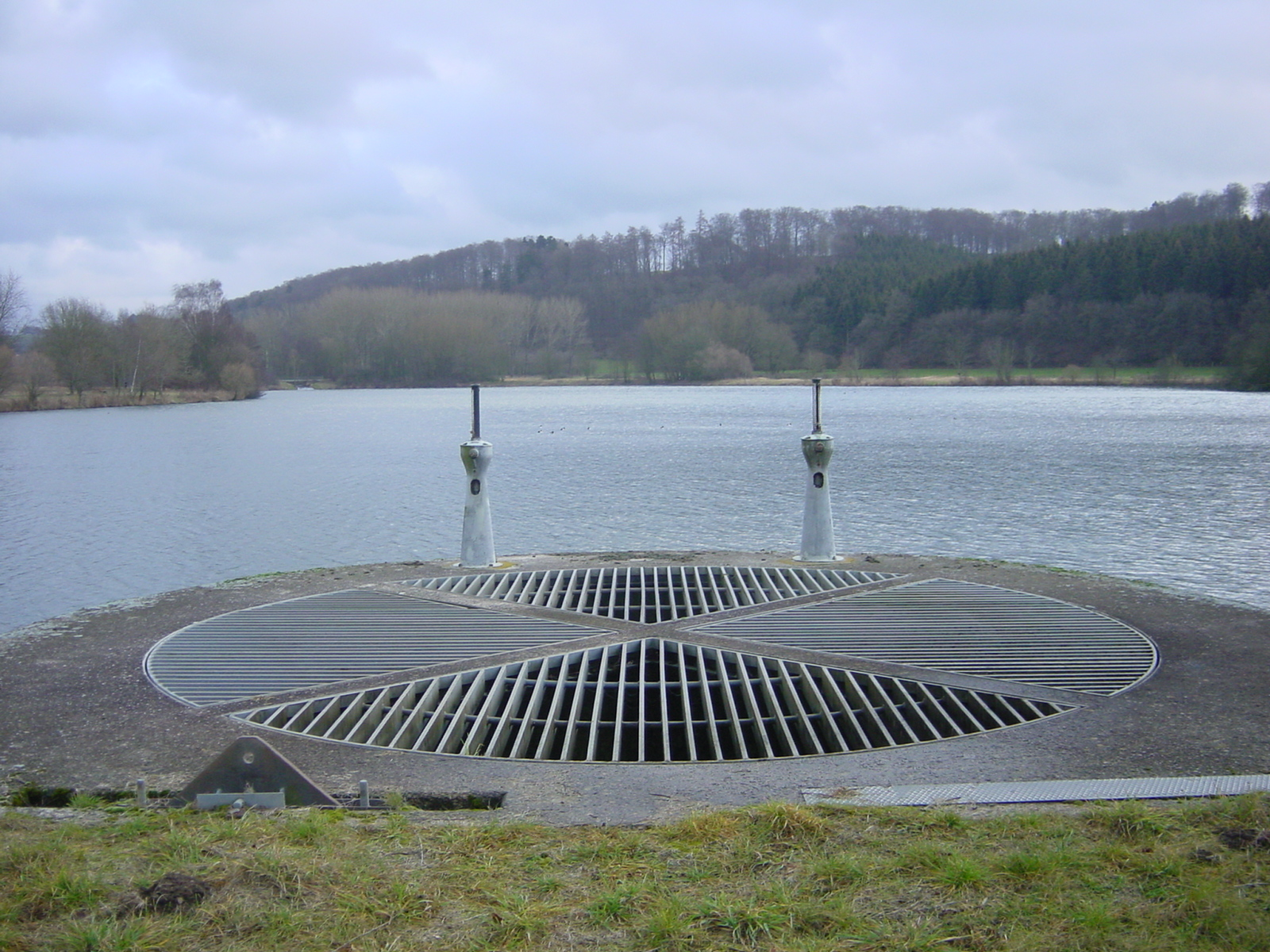 Keddinghausen retention pond, North Rhine Westphalia, Germany